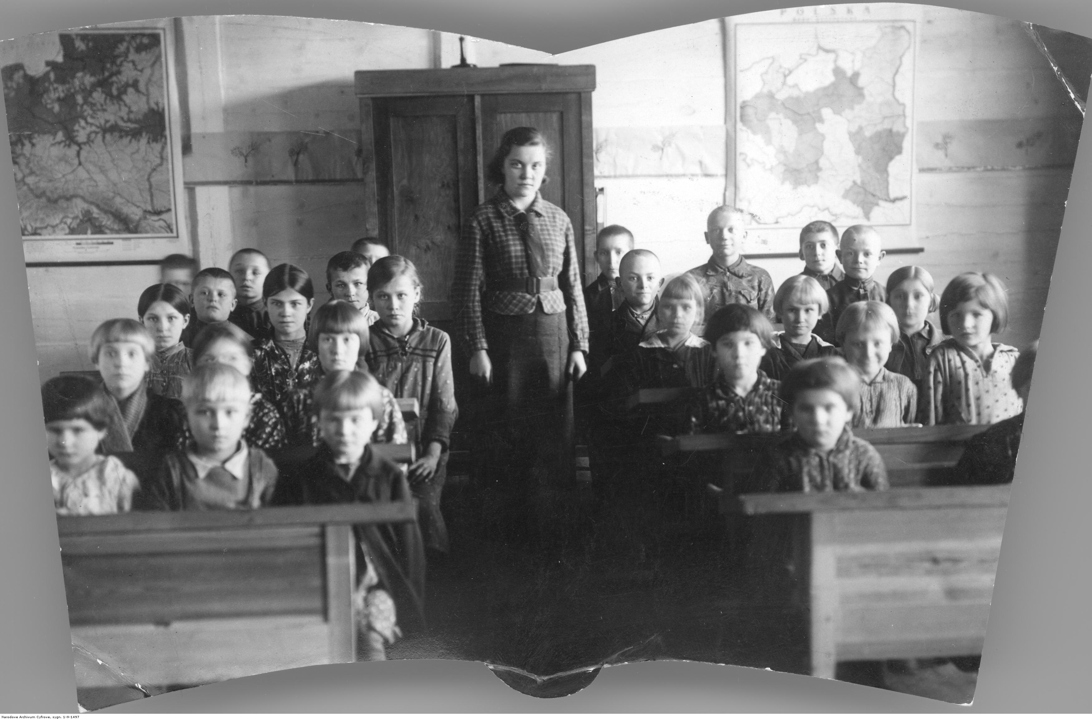 A class in a school in Dubrovytsia (then in Poland, now city in Ukraine), October 1938.